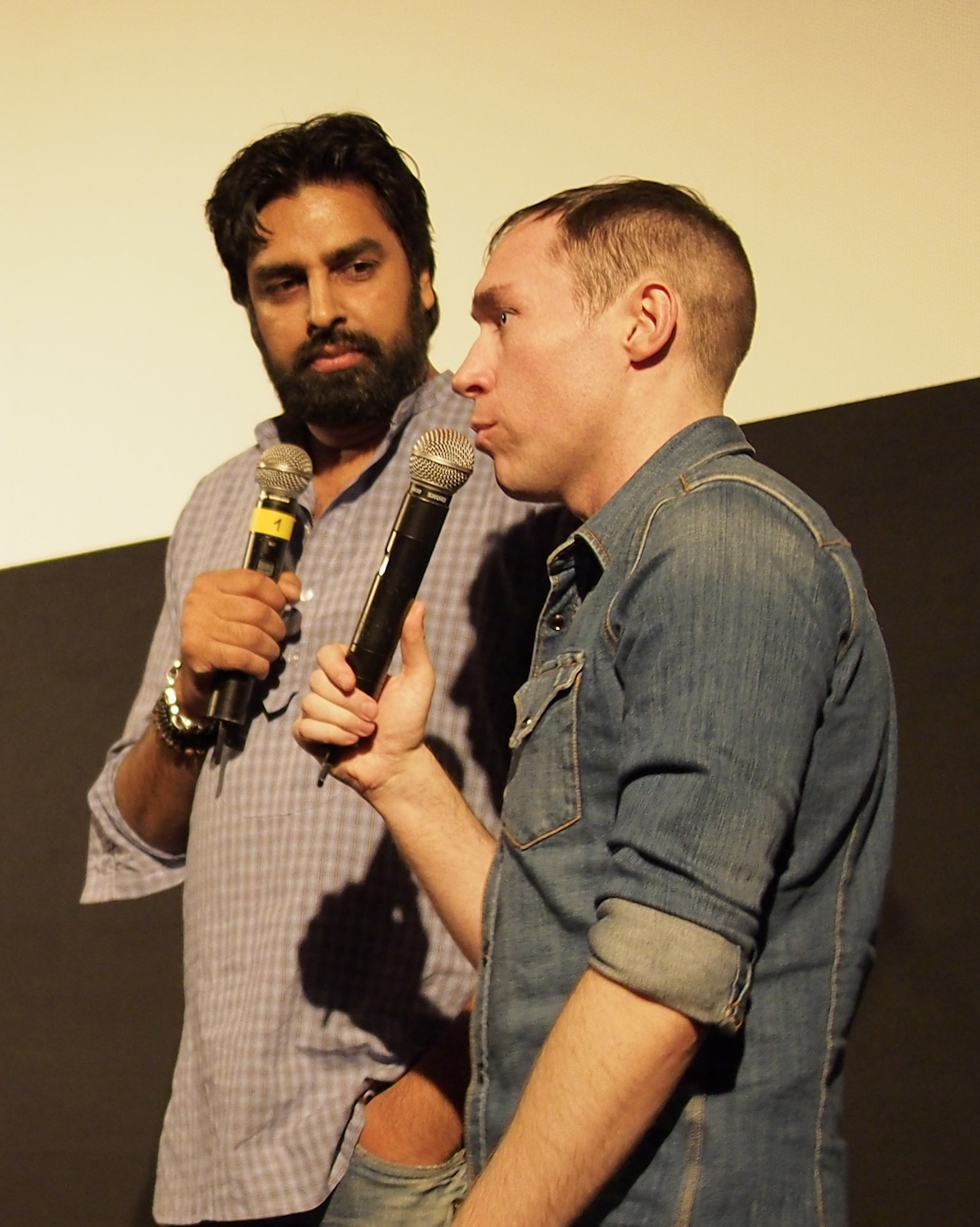 Hellfjord Q&A at the Filmfestival Linz (Zahid Ali and Stig Frode Henriksen). Cropped version.